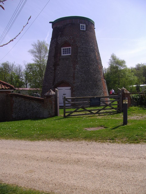 Blakeney Tower Windmill